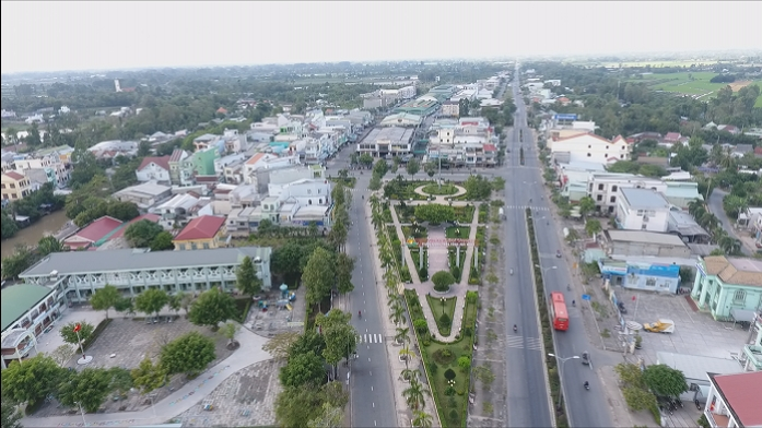 Lai Vung town